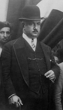 Mehmet Recep Peker (5 February 1889 – 1 April 1950)